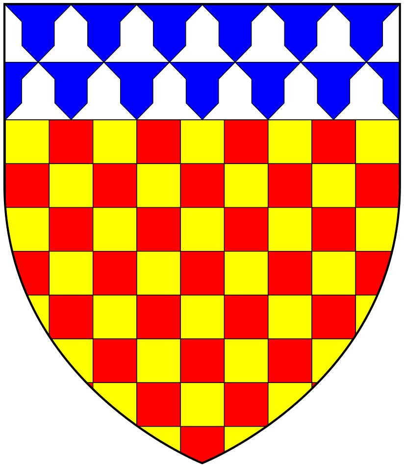 Arms of Chichester: Chequy or and gules, a chief vair